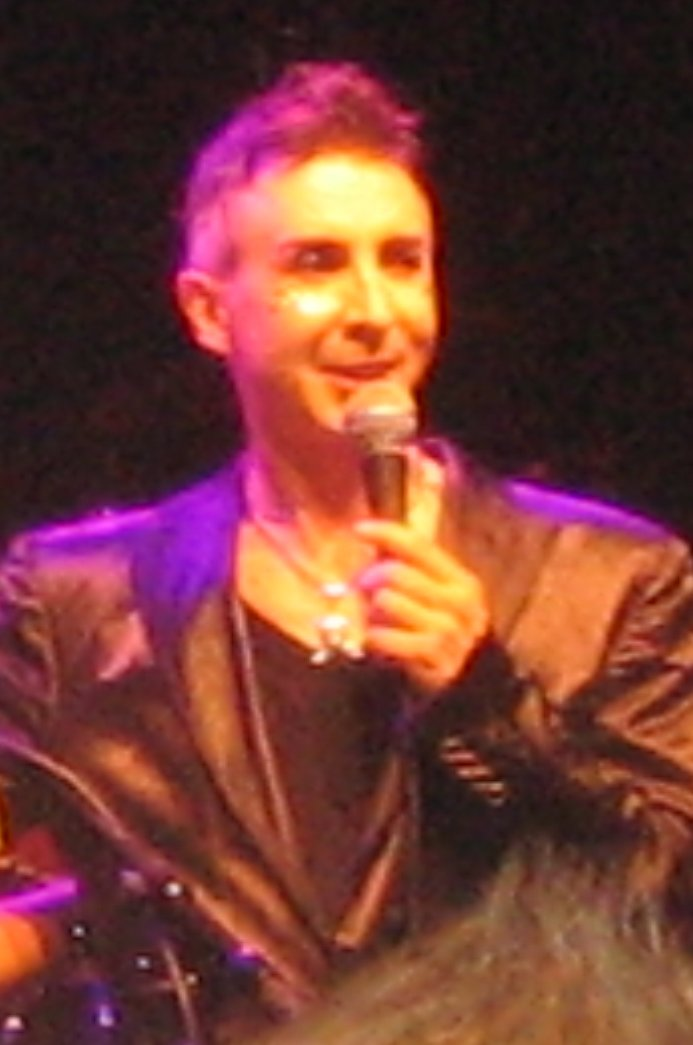 Marc Almond. Image cropped by DWaterson